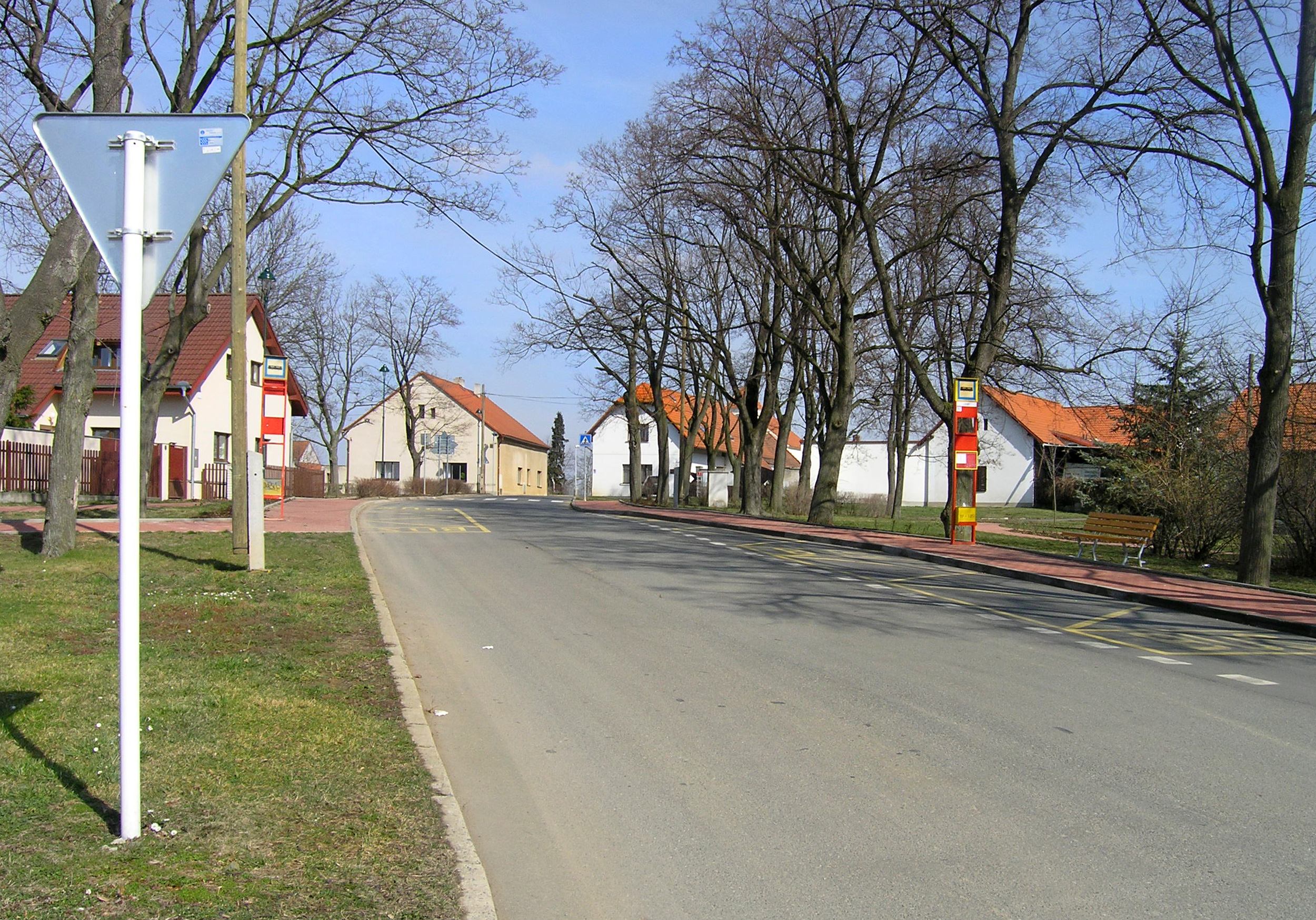 V Listnáčích street at Lipany, Prague